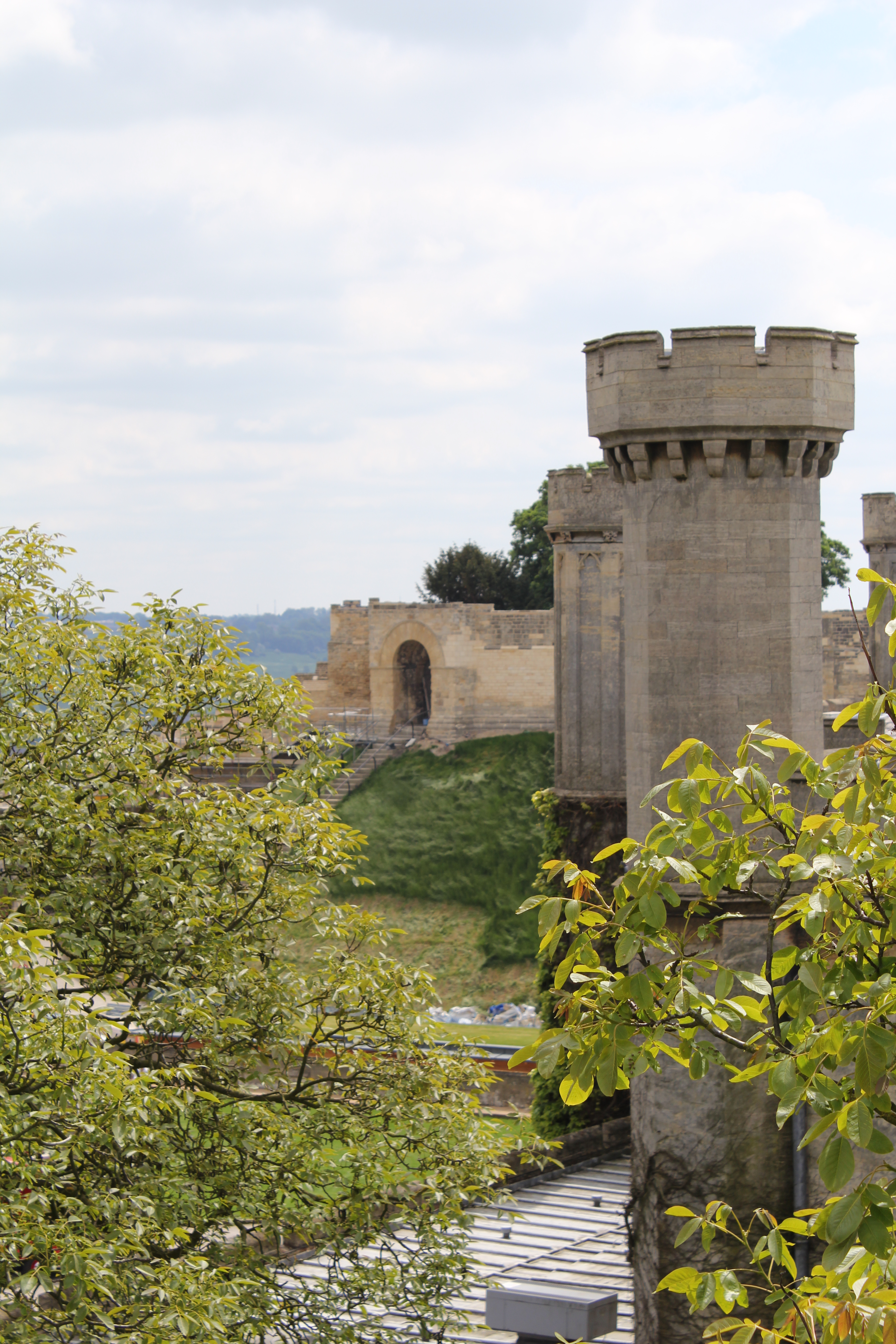 The 12th-century Lucy Tower at Lincoln Castle